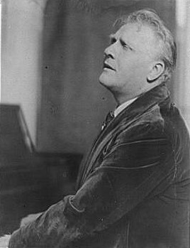 Title Portrait photograph of Fyodor Chaliapin Contributor Names Genthe, Arnold, 1869-1942, photographer Created / Published between 1922 and 1942; from a negative taken 1922 Nov. 19. Subject Headings - Chaliapin, Fyodor Ivanovich,--1873-1938. - Chaliapin, Fyodor Ivanovich,--1873-1938. Format Headings Lantern slides. Portrait photographs. Notes - Title devised. - Purchase; Genthe Estate; 1942 or 1943. - ID: LC-G39-4004-052 (related image); 1922 Nov. 19. Medium 1 slide : lantern ; 4 x 5 in. or smaller. Call Number/Physical Location LC-G4085- 0408 [P&P]